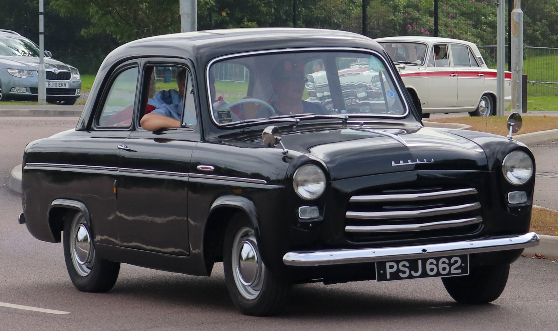 1956 Ford Anglia 100E 1.2 Taken at the British Motor Museum Old Ford Rally 2019, Gaydon